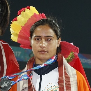 Annu Rani Of India,the Bronze Medalist during 22nd Asian Athletics Championships in Bhubaneswar.